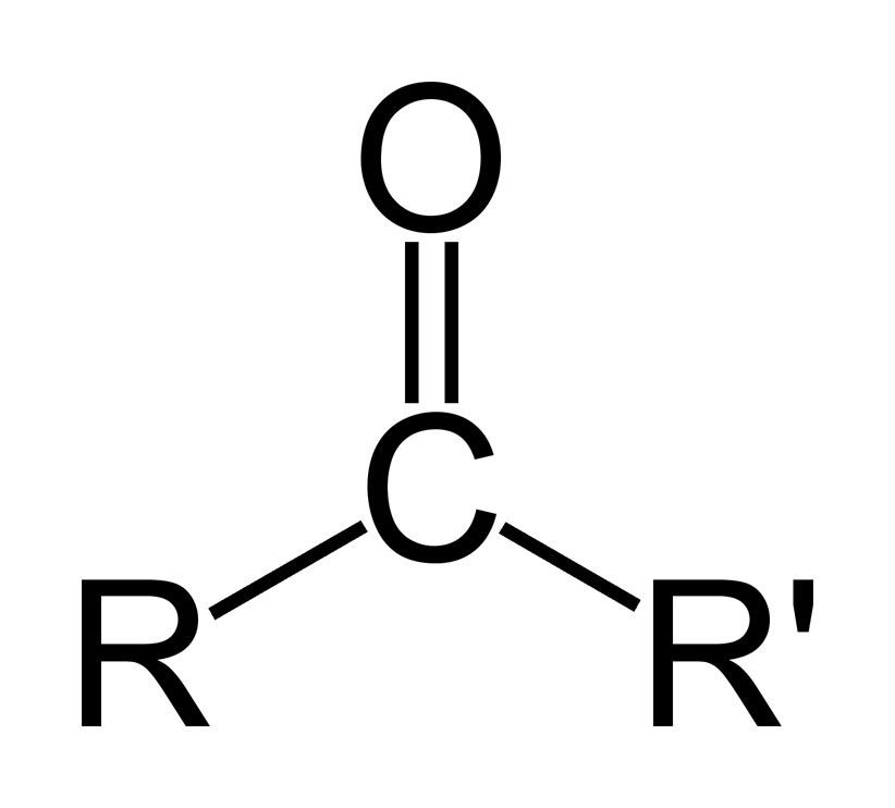 Description: Structural formula of a general ketone (RCOR'). Author, date of creation: self made by Ben Mills at 14:38, 8 March 2006 (UTC). Source: user-created image Comments: high-resolution black and white PNG; ChemDraw / Photoshop.